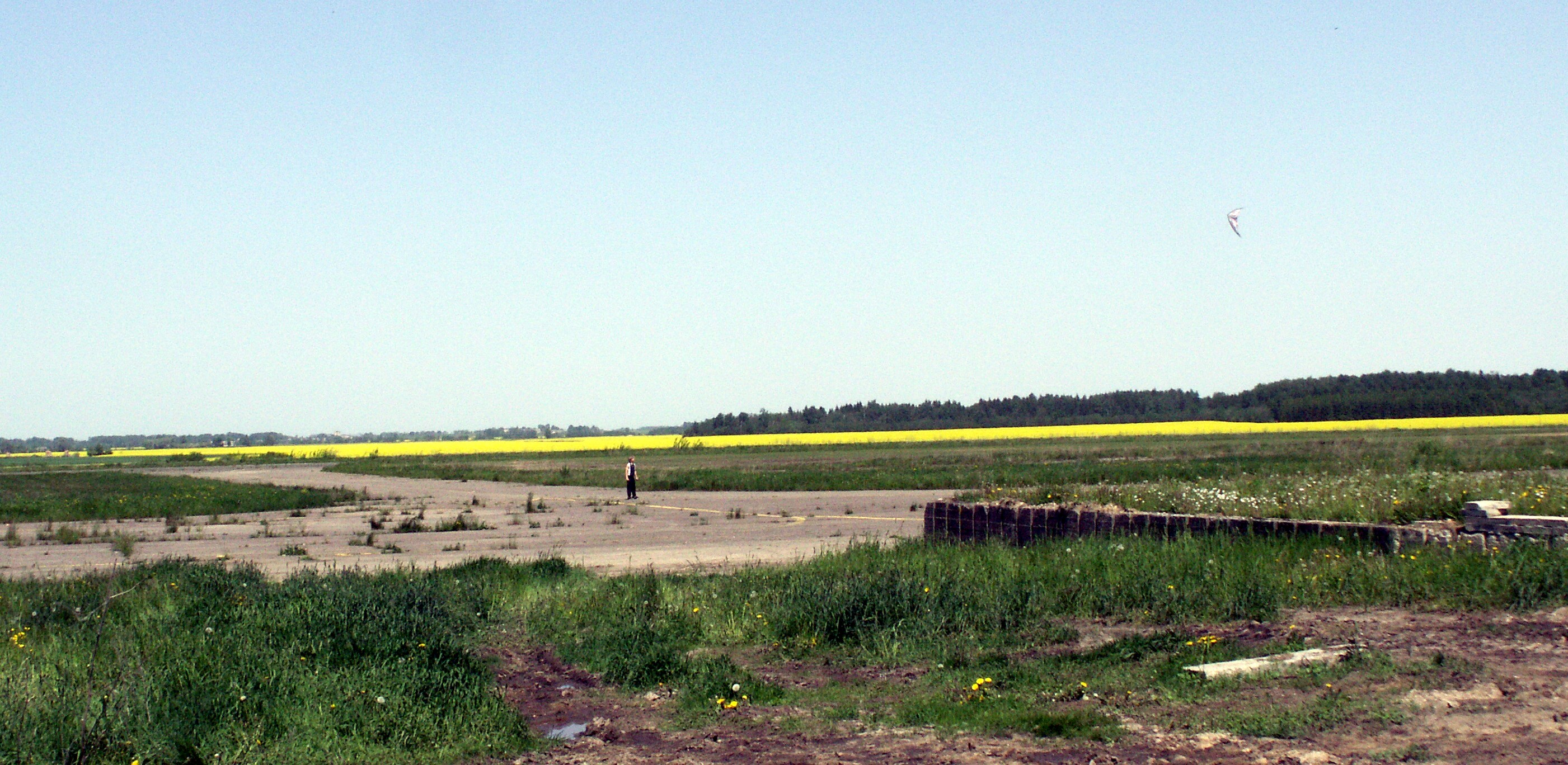 Barysiai aerodrome, Joniškis district, Lithuania